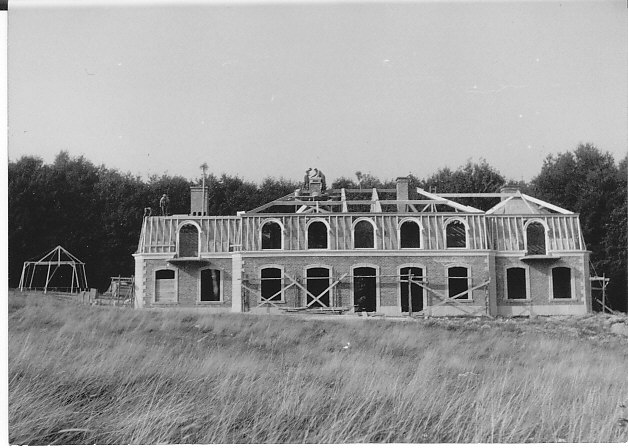 One of the numerous villas in classical style built by architect Francis Bonaert